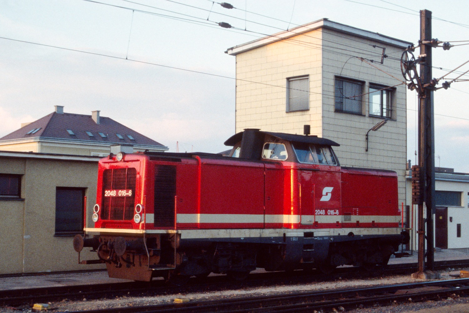 ÖBB shunter 2048 016-6 in St. Pölten Hauptbahnhof